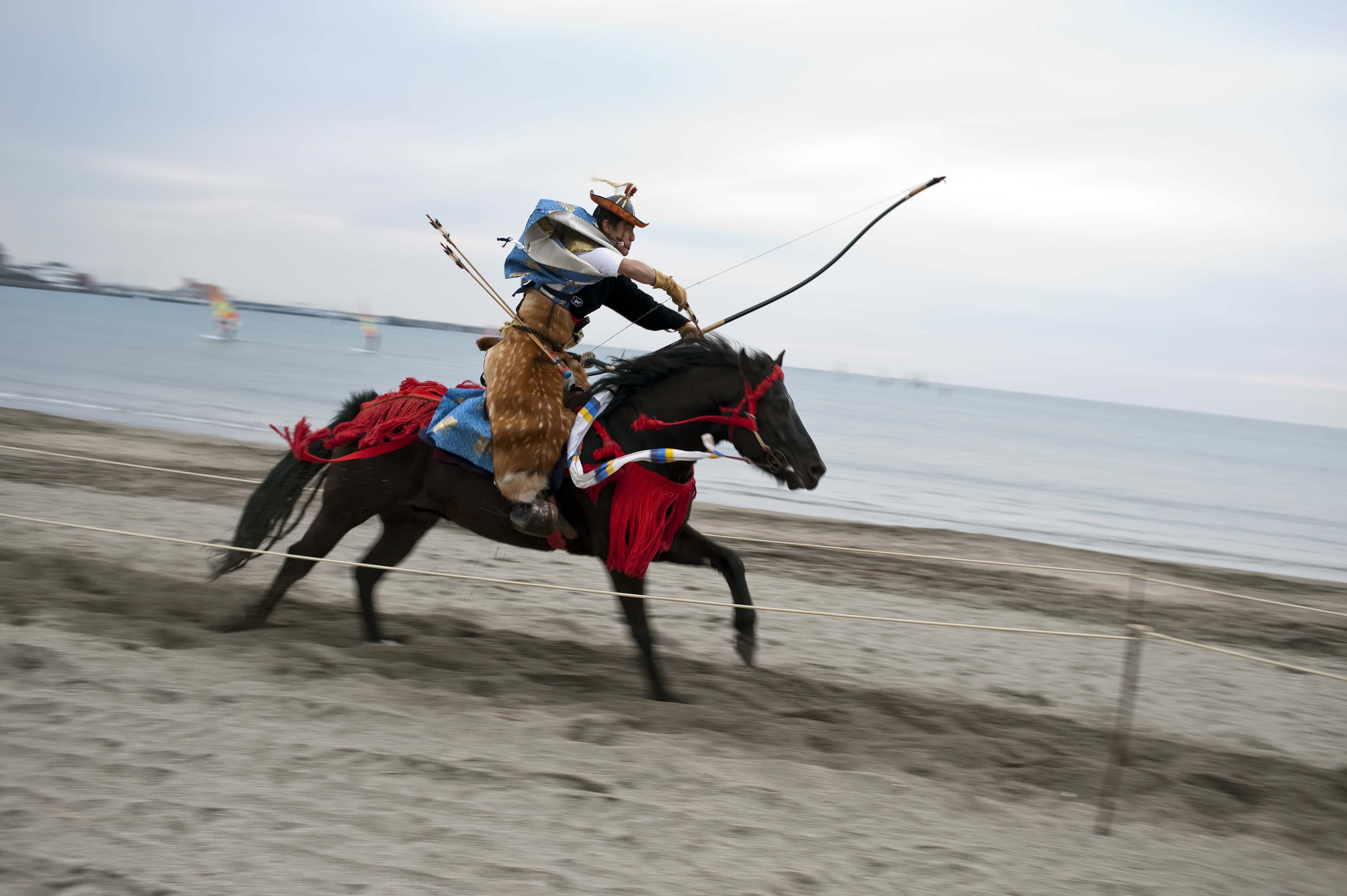 Yabusame in Zushi, November 2009